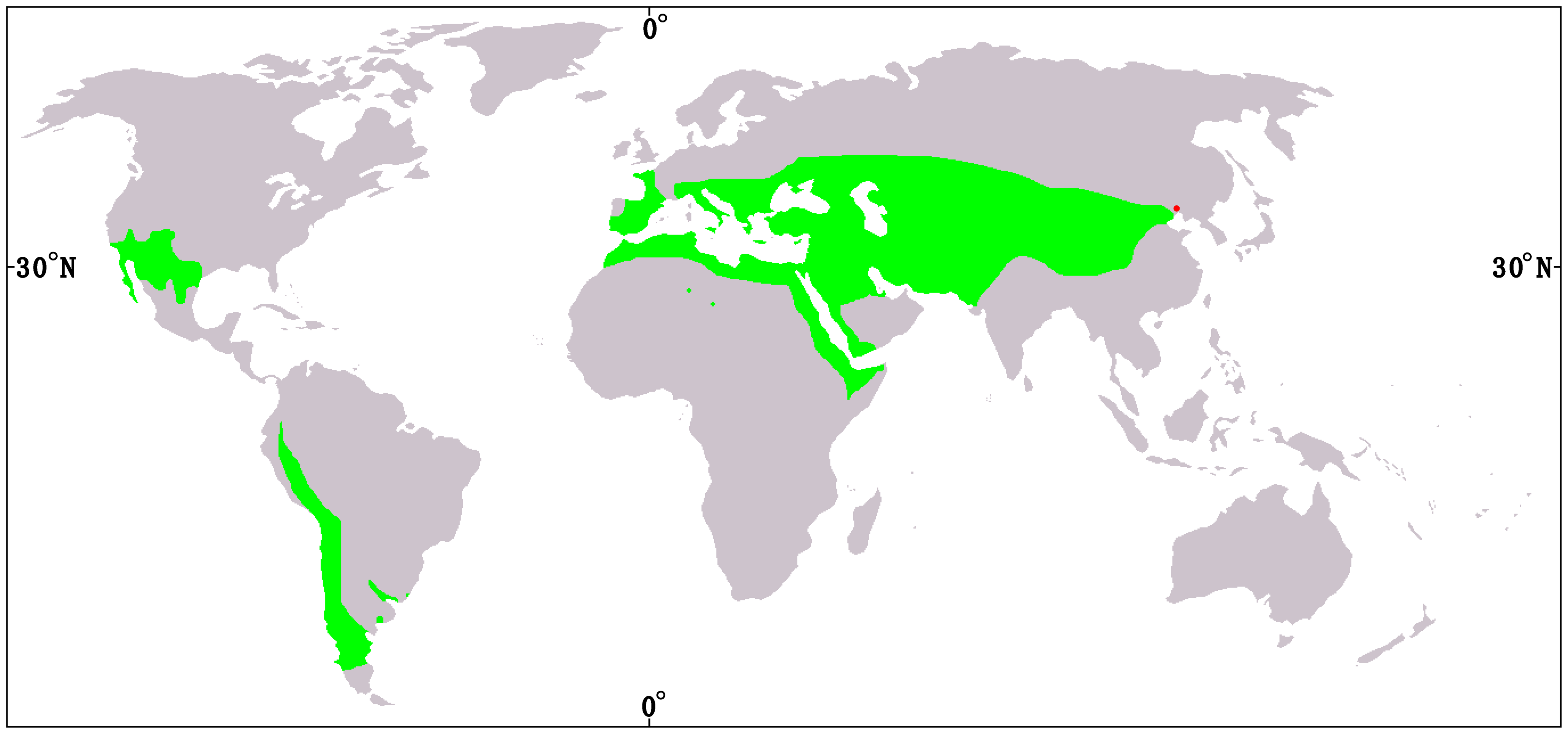 Distribution of extant Ephedra (green regions) after [5] (red dot showing the present fossil locality).